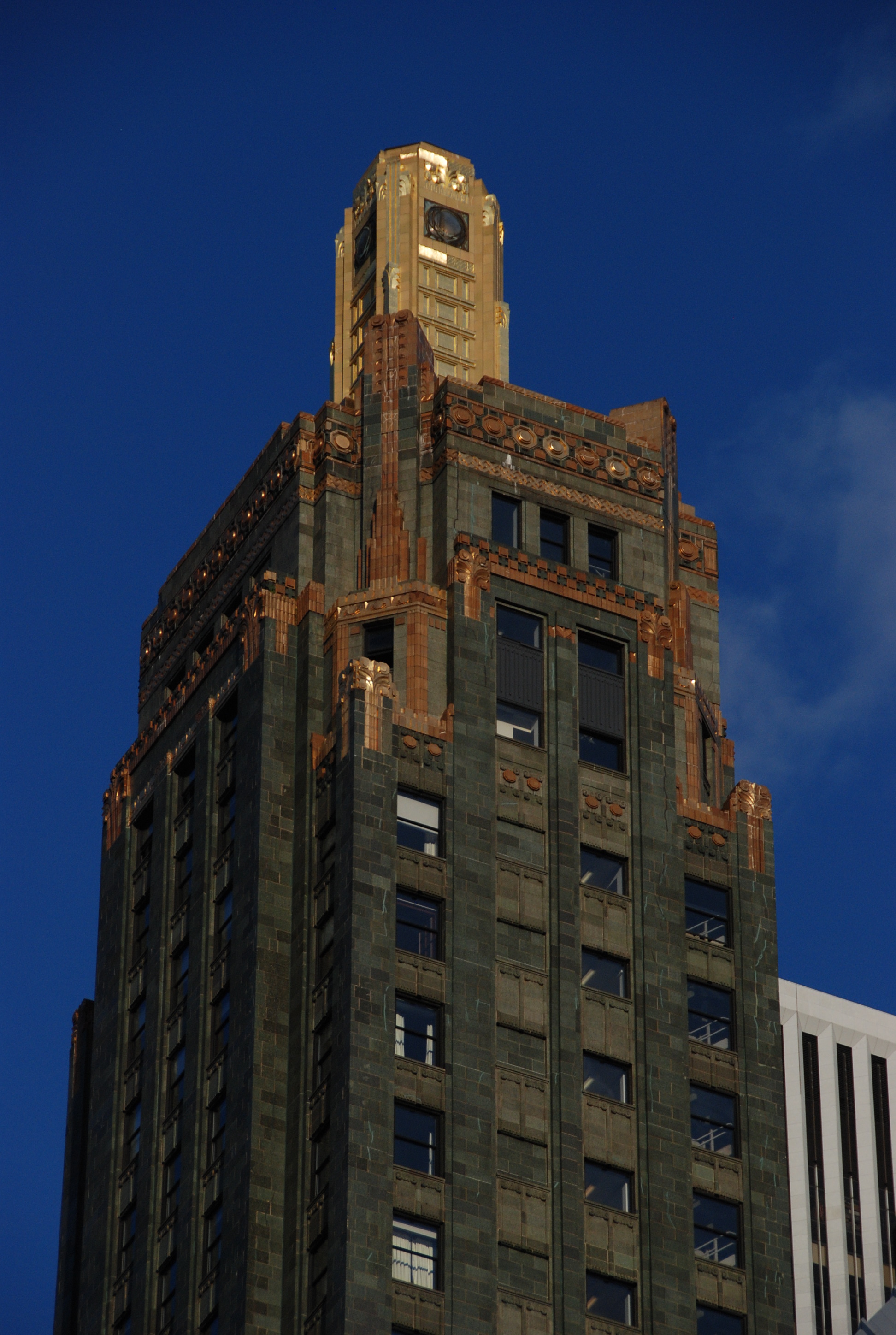 Carbide and Carbon Building, Chicago.